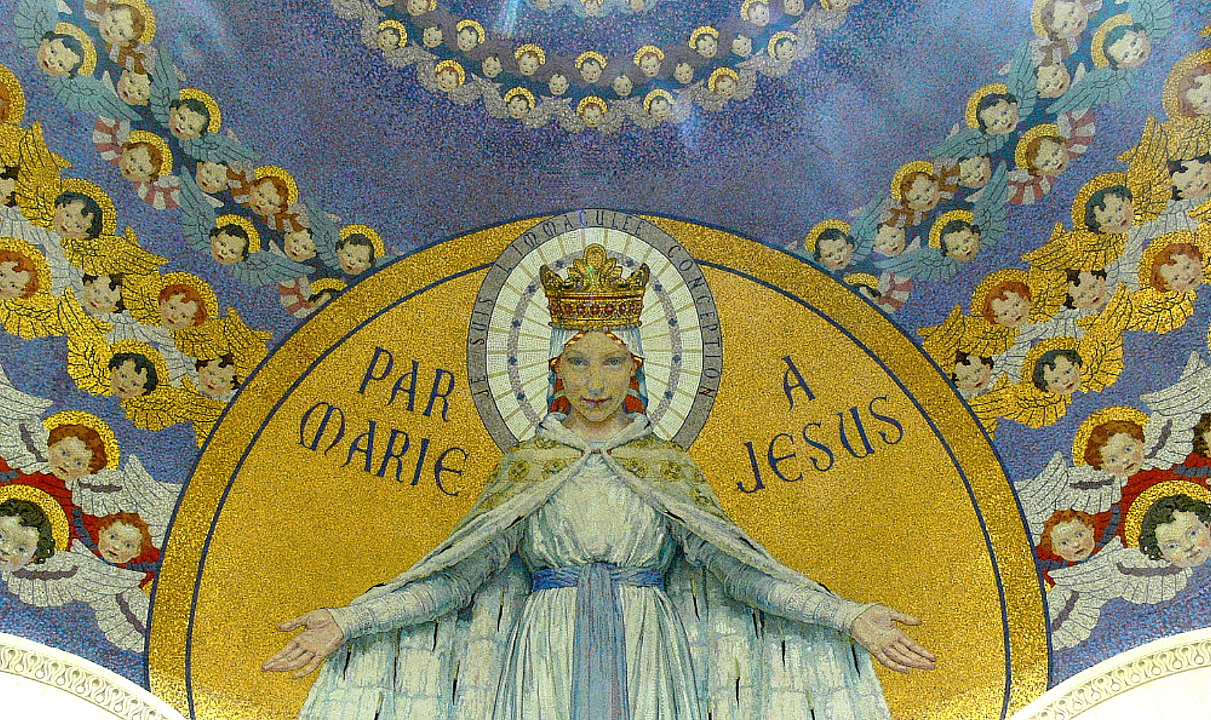 Rosary Basilica in Lourdes - Arch Mosaic ('By Mary to Jesus')